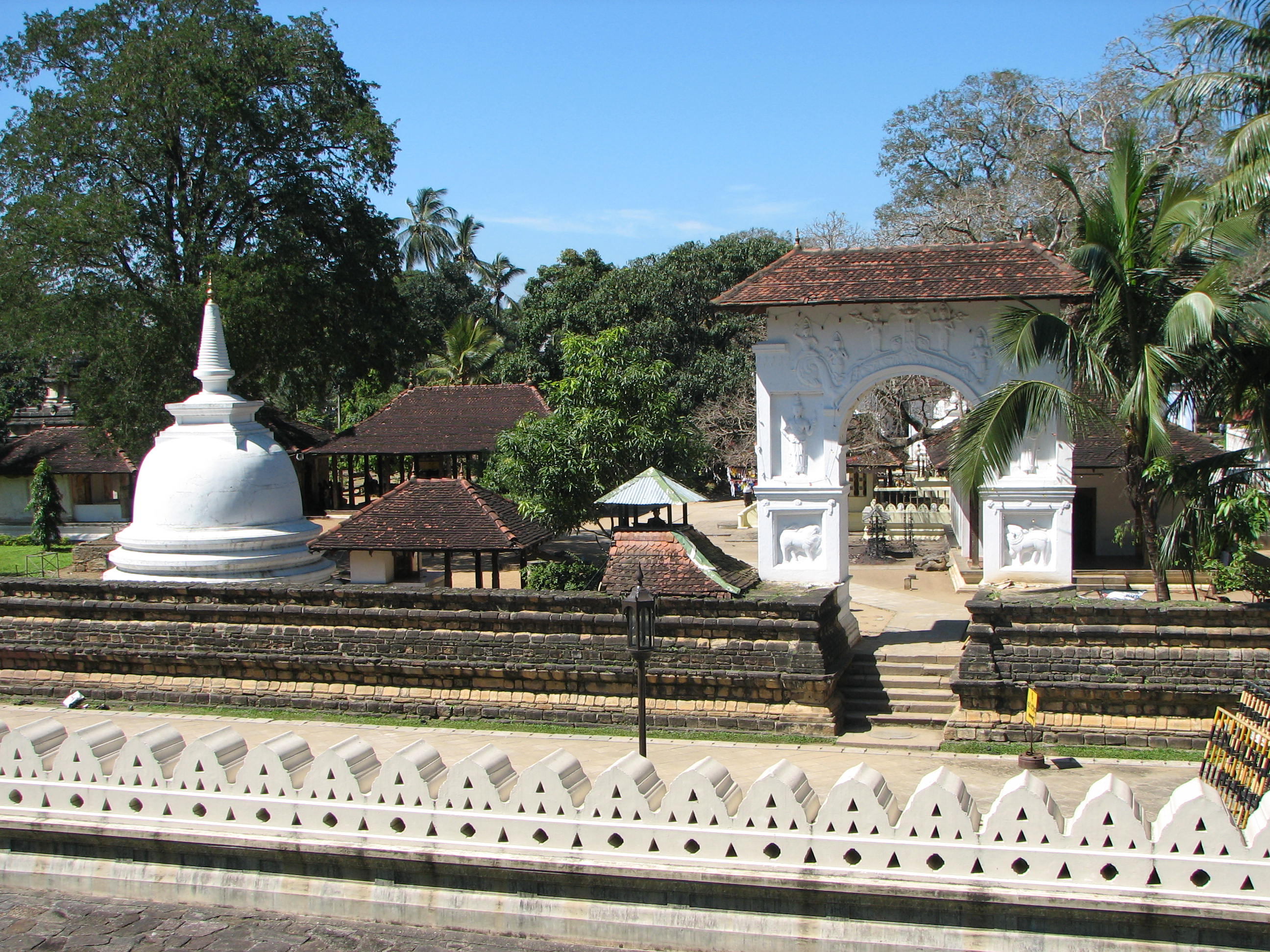 Sri Dalada Maligawa (Temple of the Tooth), Kandy, Sri Lanka